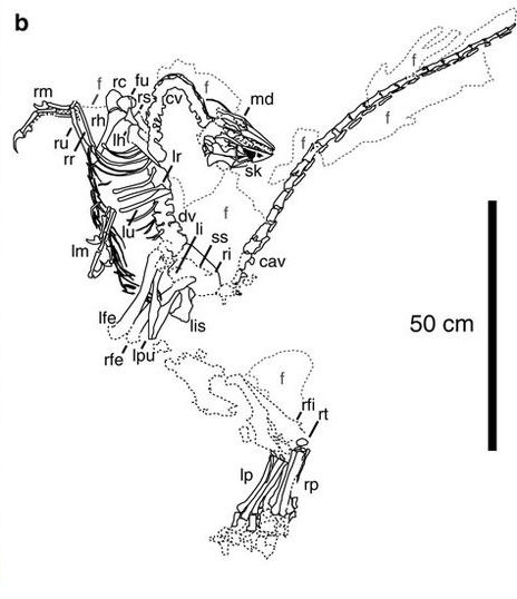 Figure 1: Jianianhualong tengi holotype DLXH 1218. (a) Photograph and (b) line drawing of the specimen. Scale bar, 50 cm. cav, caudal vertebrae; cv, cervical vertebrae; dv, dorsal vertebrae; fu, furcula; lfe, left femur; lh, left humerus; li, left ilium; lis, left ischium; lm, left manus; lp left pes; lpu, left pubis; lr, left radius; lu, left ulna; md, mandible; rc, right coracoid; rfe, right femur; rfi, right fibula; rh, right humerus; ri, right ilium; rm, right manus; rr, right radius; rs, right scapula; rt, right tibiotarsus; ru, right ulna; sk, skull; ss, synsacrum.